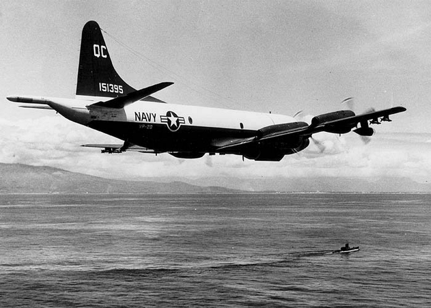 A U.S. Navy Lockheed P-3A-35-LO Orion (BuNo 151395) from Patrol Squadron VP-28 in flight off Oahu, Hawaii (USA), armed with 12,7 cm HVAR rockets. This aircraft was modified for use by U.S. Customs Service as N16295, registered on 30 December 1988. It was stored on 31 March 2011 and scrapped in December 2013.